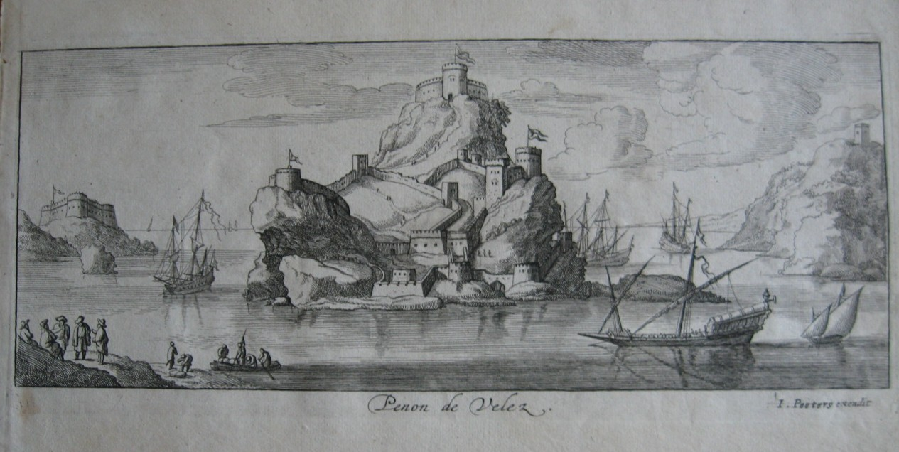 Engraving from the second half of the 17th century showing the Spanish-held Peñón de Velez de la Gomera off the shores of Morocco. Etched by Gaspar Bouttats (1640-1695). Antwerp-based publisher Jacobus Peeters published around 1690 an atlas with a series of prints related to the Habsburg struggle against the Turks (1683-1699), and also views of the Mediterranean. The atlas was titled Sacr. Caes. Mati. Leopoldo, has Turcis ereptas, et favente Deo eripiendas Hongariae civitates, aliasque Turcias. Size of plate: 27 cm x 11.5 cm.